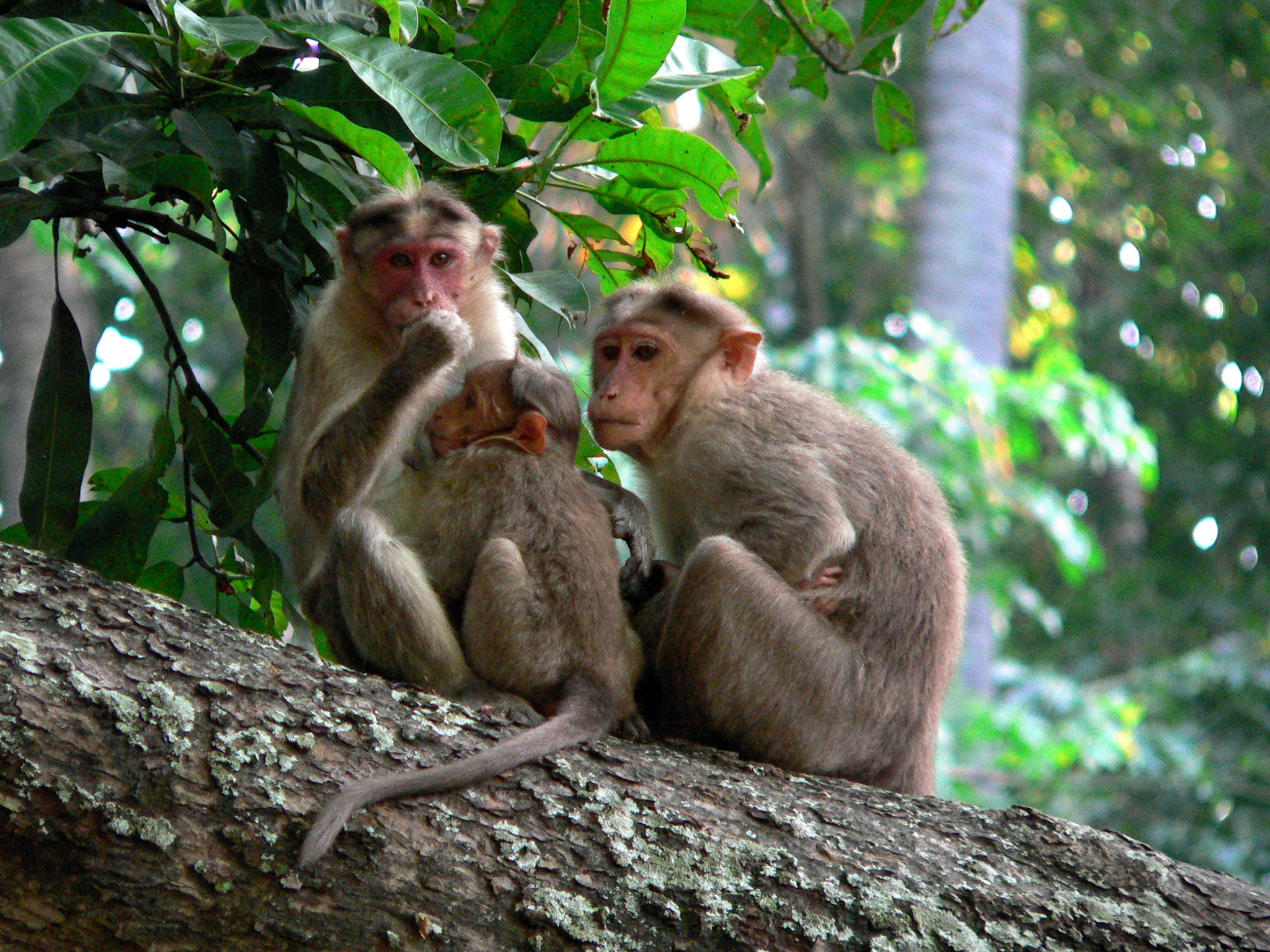 (possibly in India)monkey family